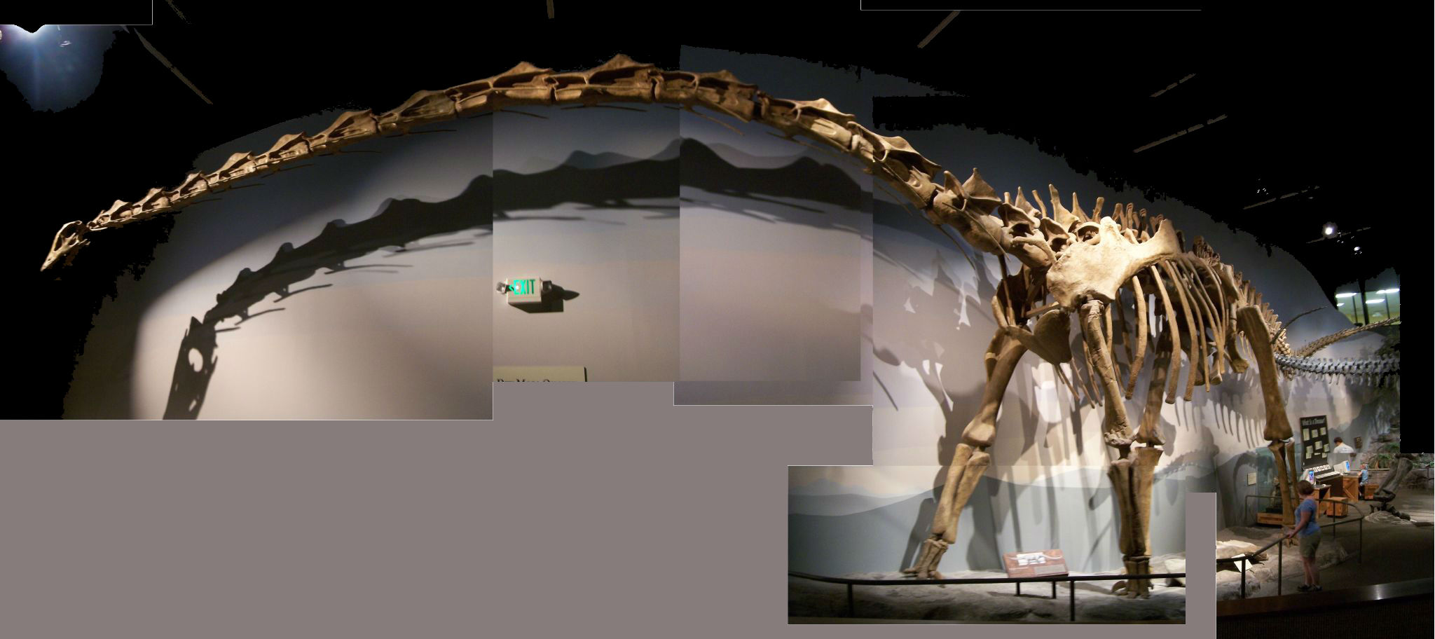 Collage style image of a supersaurus at the North American Museum of Ancient Life